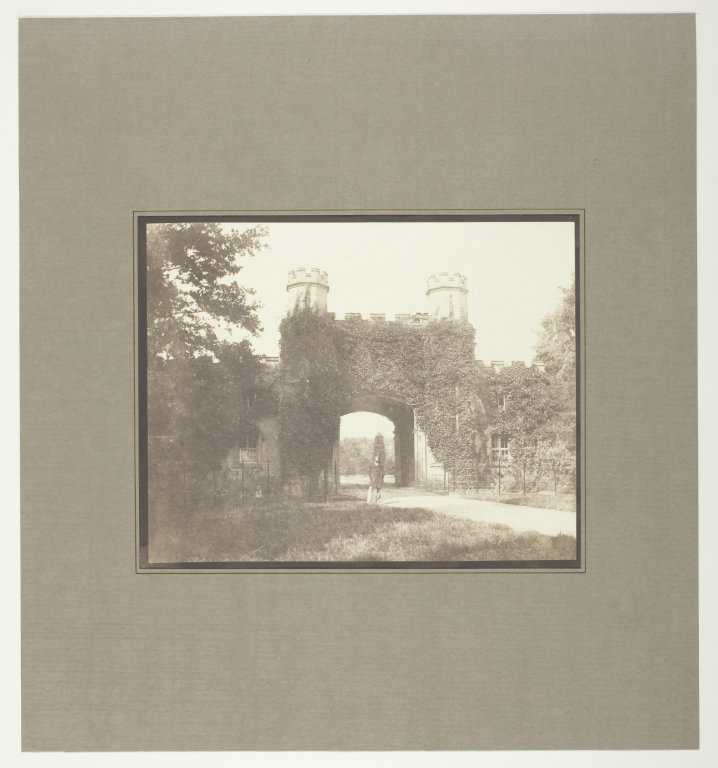 Salted paper print by Henry Fox Talbot